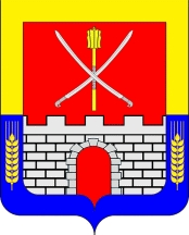 Coat of arms of Prochnokopskaya, Novokubansk Raion, Krasnodar Krai, Russia.